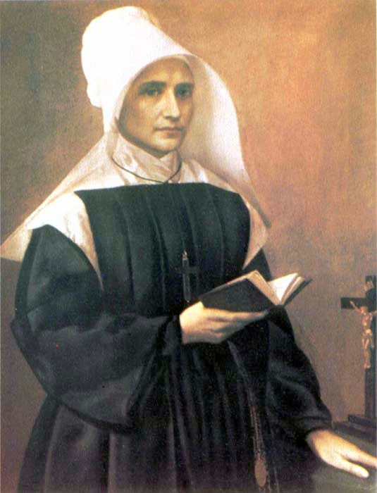 Mother Mary Enrichetta Dominici (1829-1894)